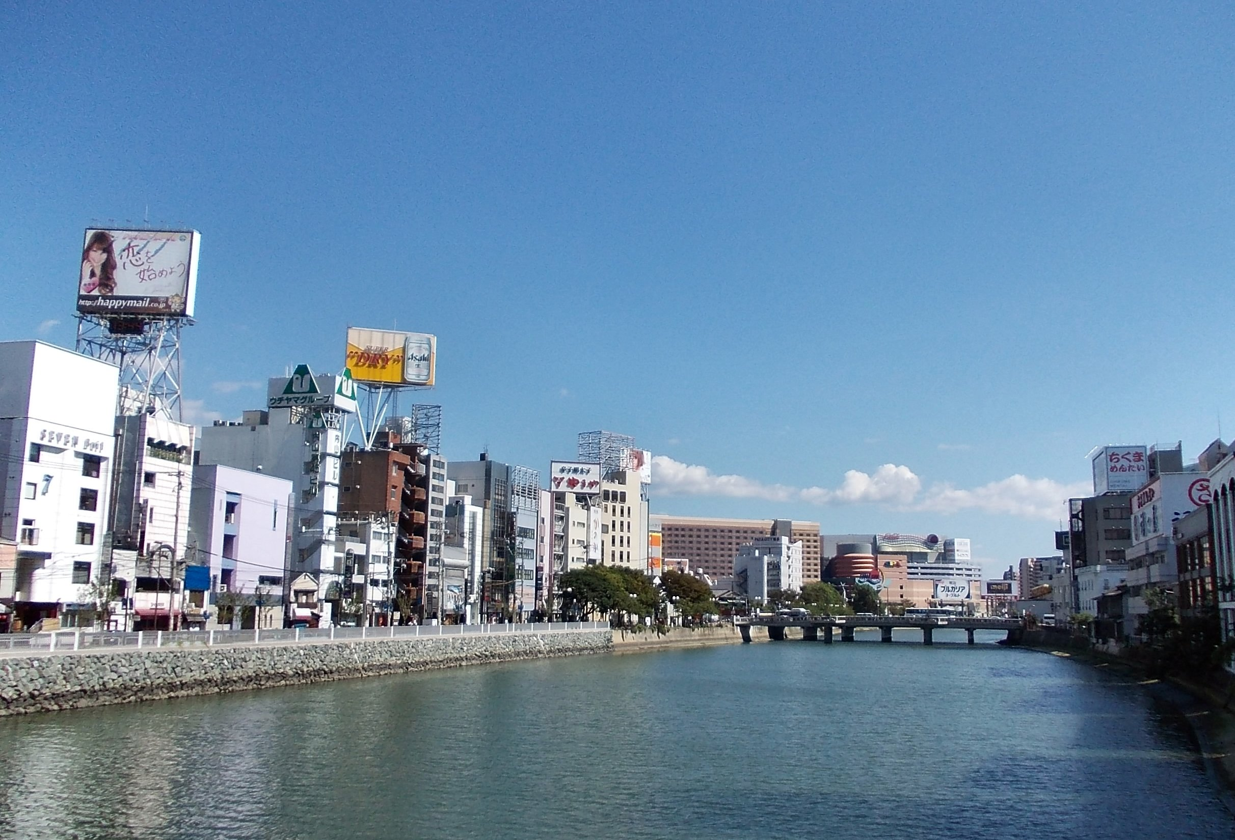 View of Nakasu and Canal City Hakata from Fukuhaku Deai Bridge